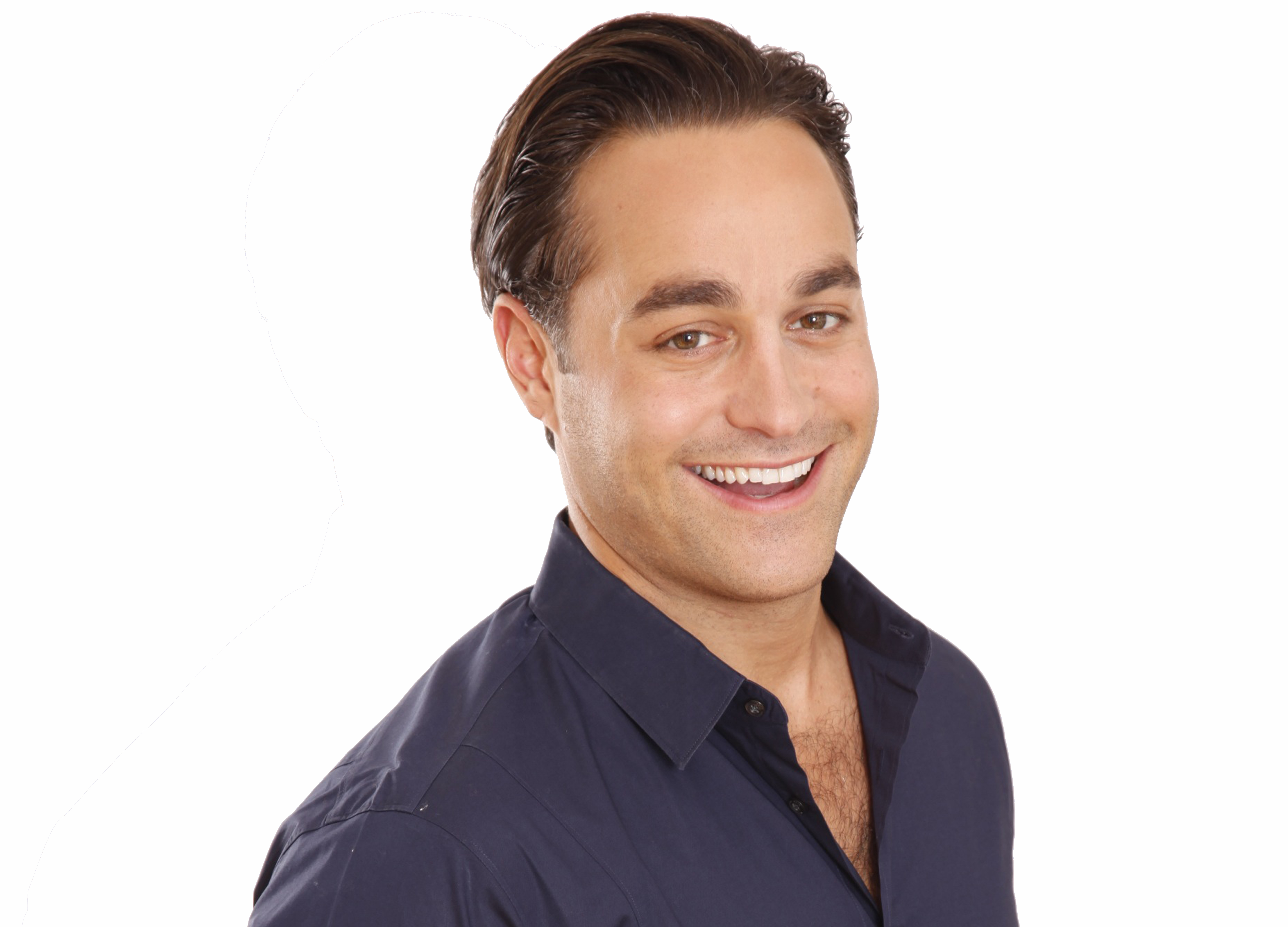 Original photograph by Lisa Boyle